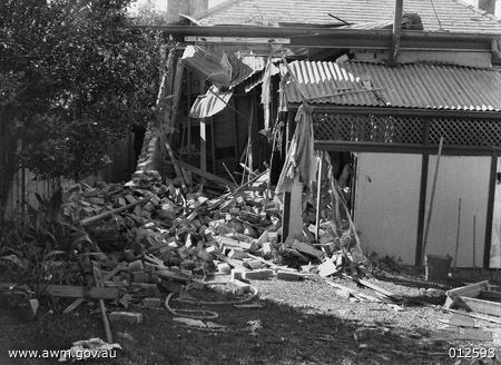 'AWM Caption: Australia made its acquaintance with Japanese submarines when three of them sneaked into Sydney Harbour. Their combined efforts resulted in the sinking of a harbour vessel of no military value. Within an hour or so of their entrance, one of them had been sunk by gunfire and the other two by depth charges. Shown here is the damage caused to an Eastern Suburbs of Sydney home by a Japanese shell.